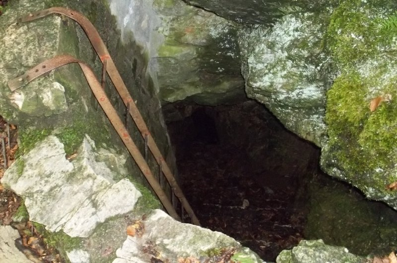 Entrance of Láner Olivér Cave (Bükk Mountains, Miskolc)